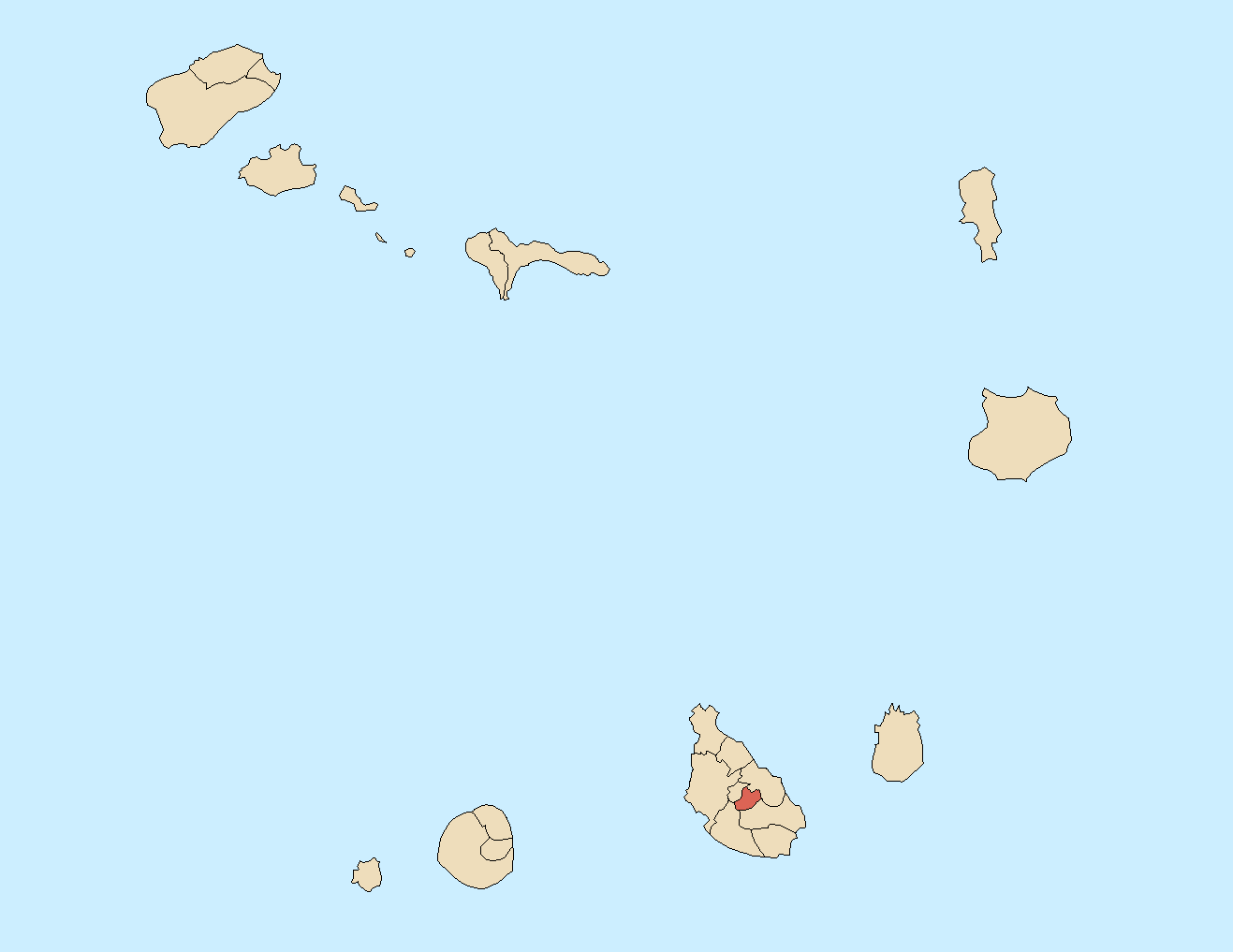 Locator map of São_Lourenço_dos_Órgãos county, Cape Verde